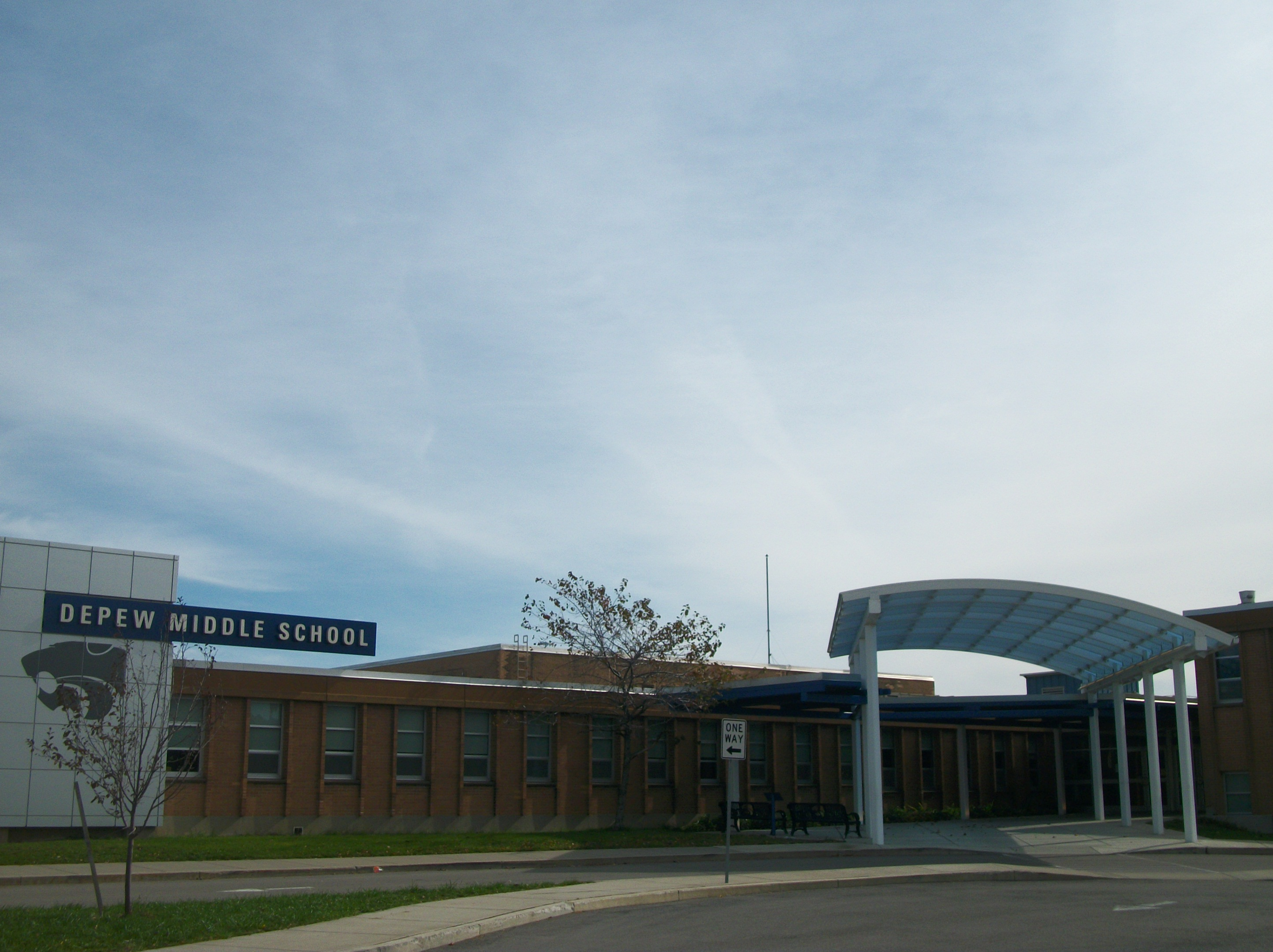 Depew Middle School 5201 Transit Road, Buffalo, NY 14043